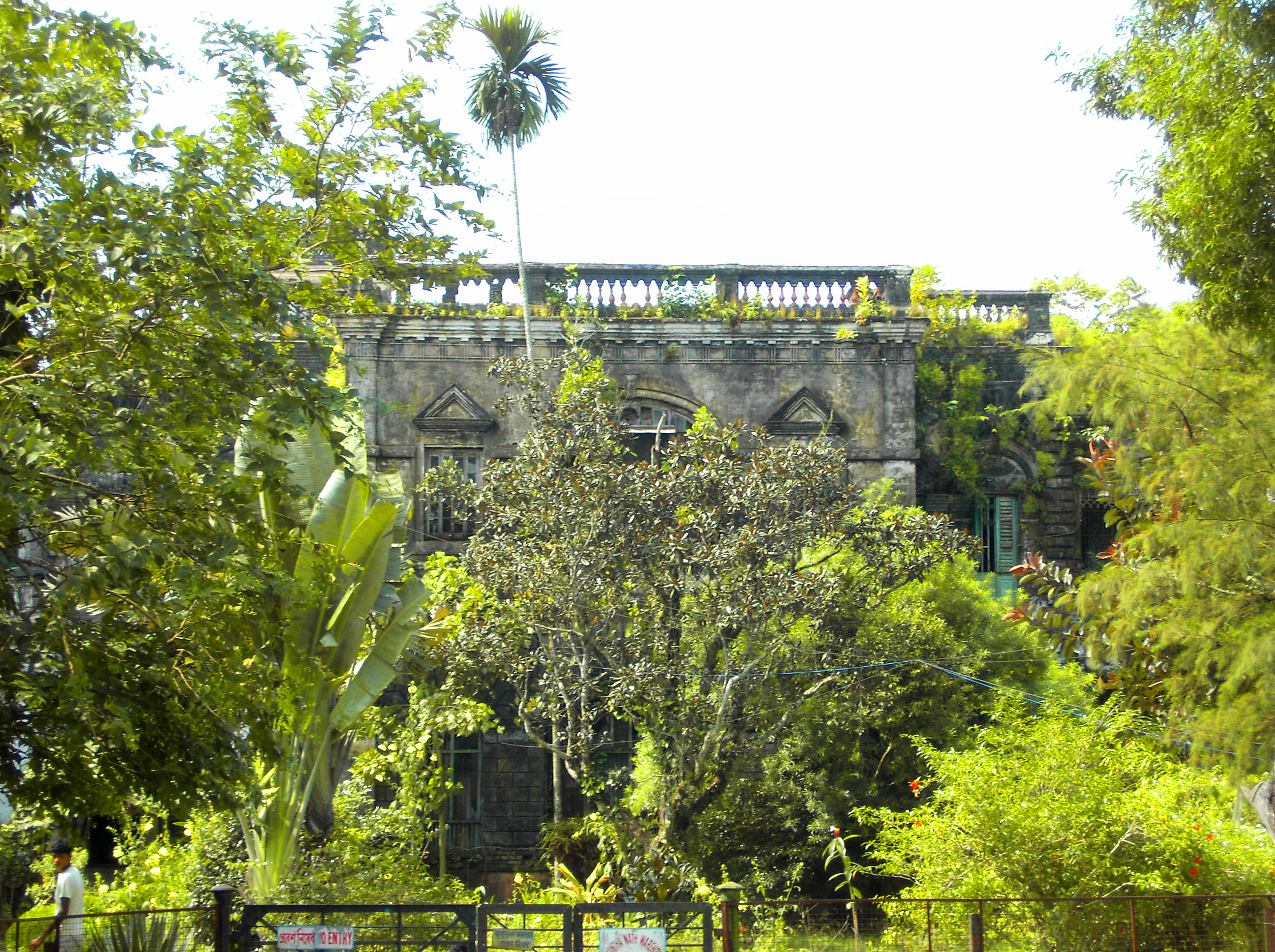 Since there is no one interested in looking after the palace it is left in its own fate and this is the result.